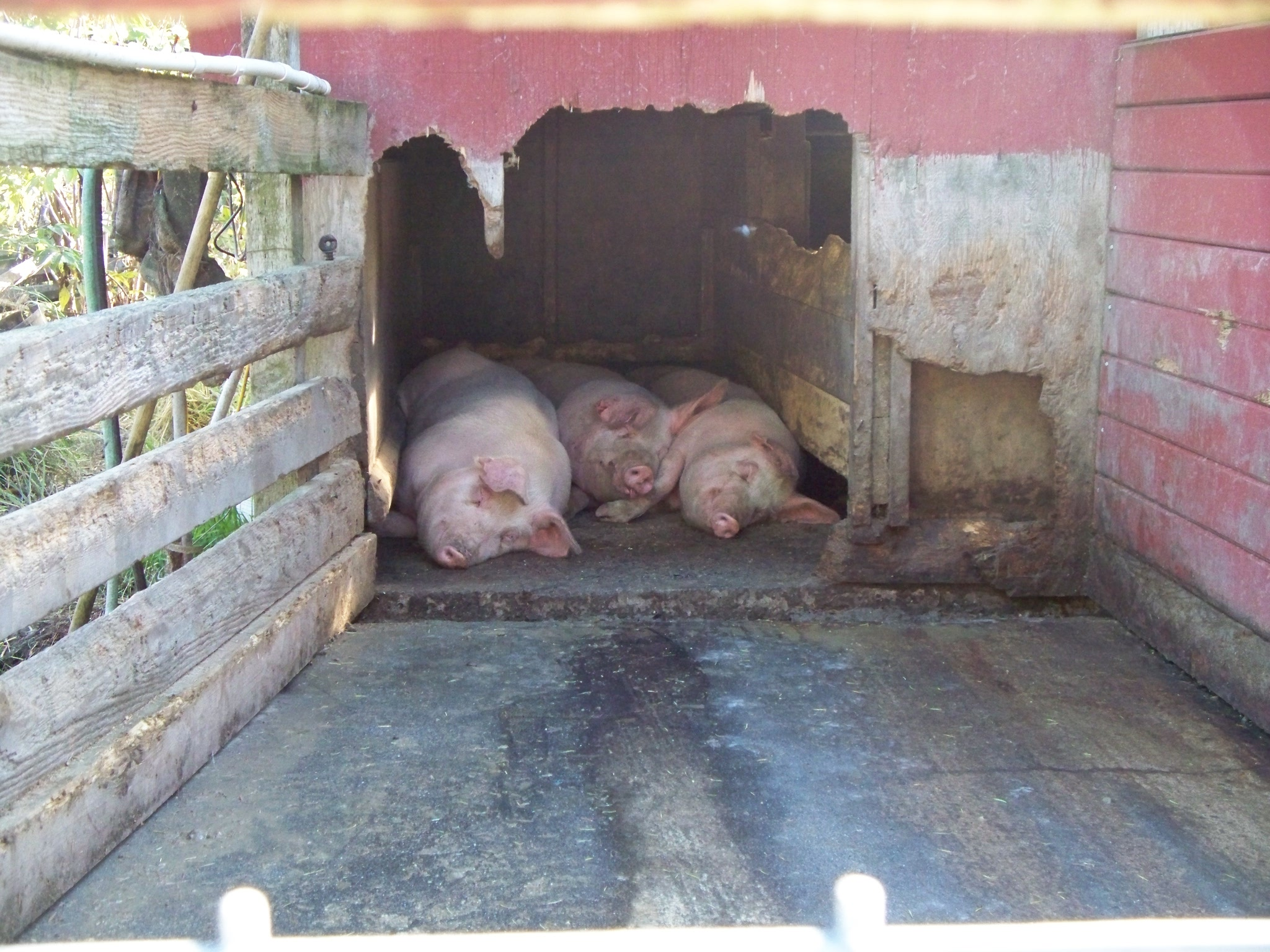 Three pigs sleeping in a covered corral.